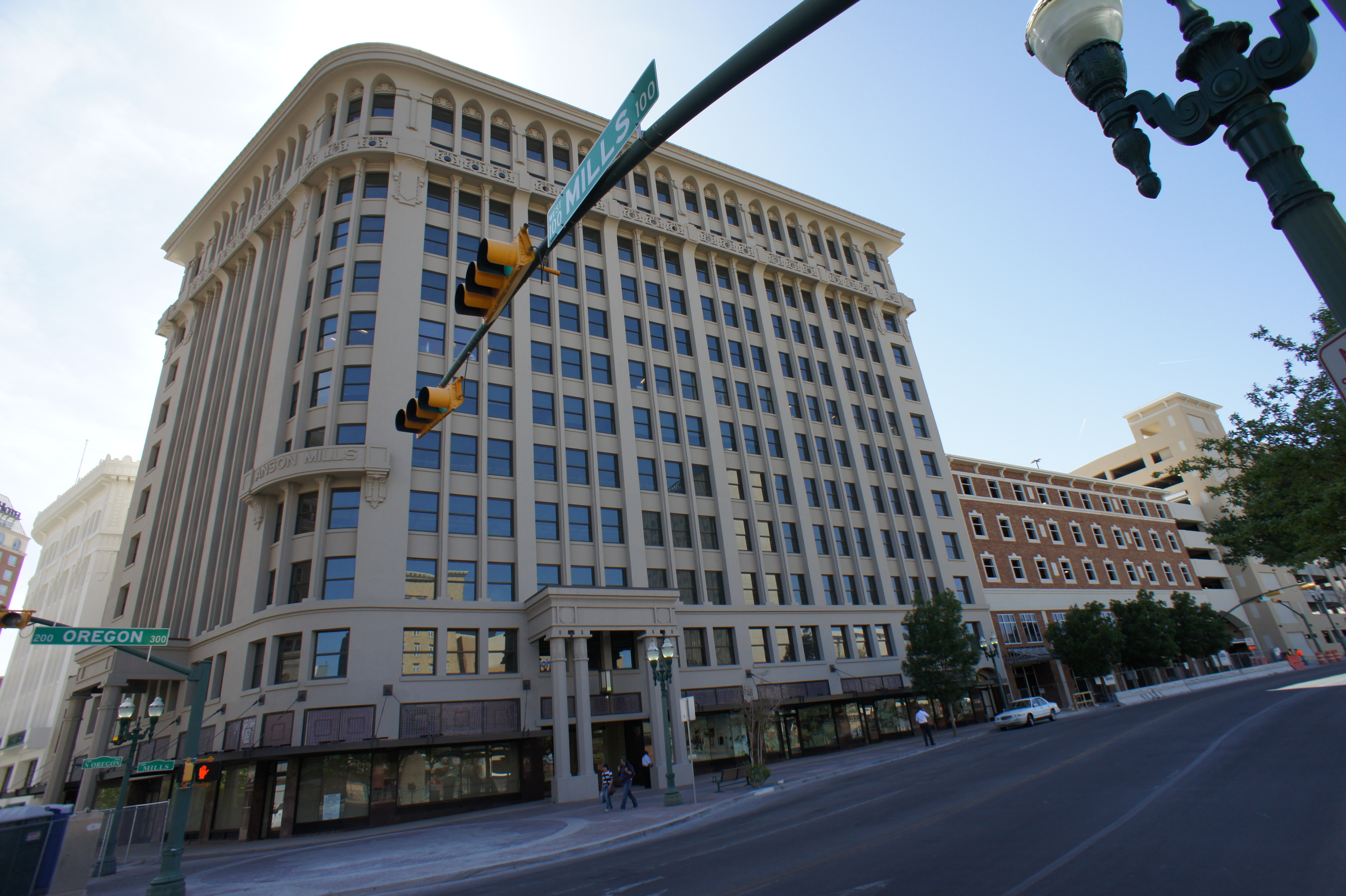 SE Corner